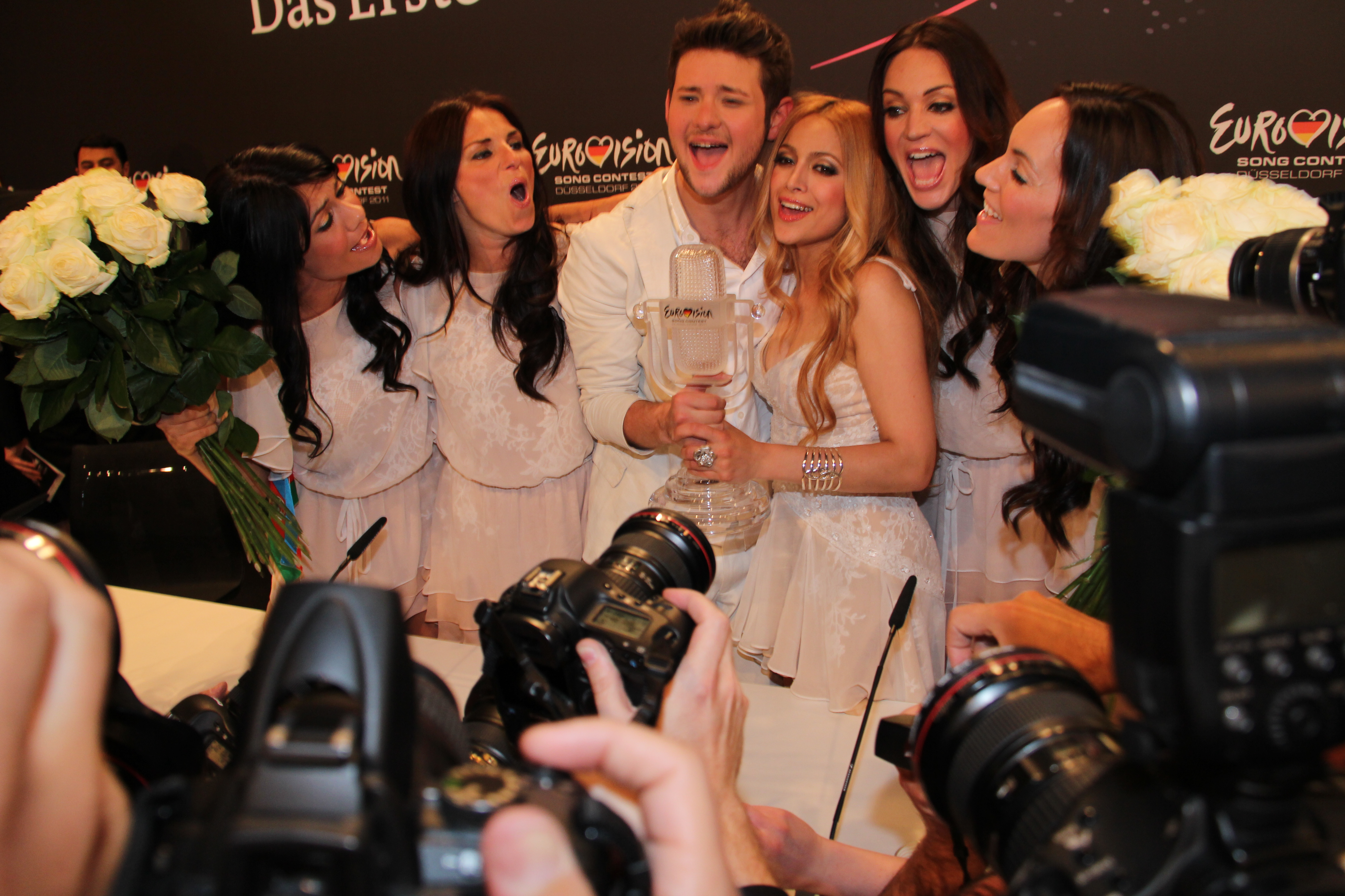 Winners of the Eurovision Song Contest 2011 in Düsseldorf (Germany): Eldar & Nigar from Azerbaijan